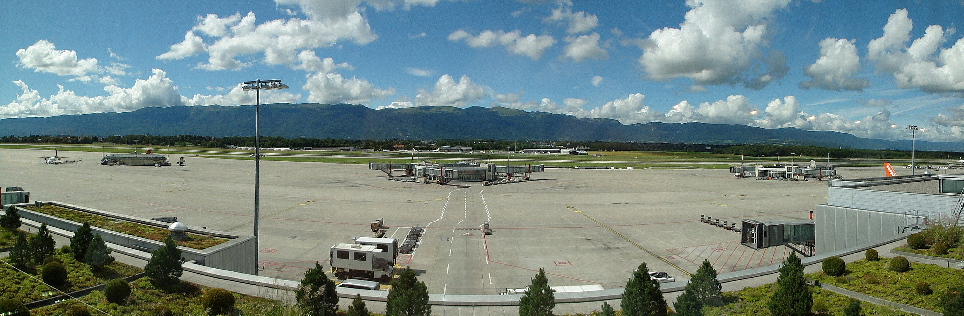 Geneva International Airport (Jura Mountains)